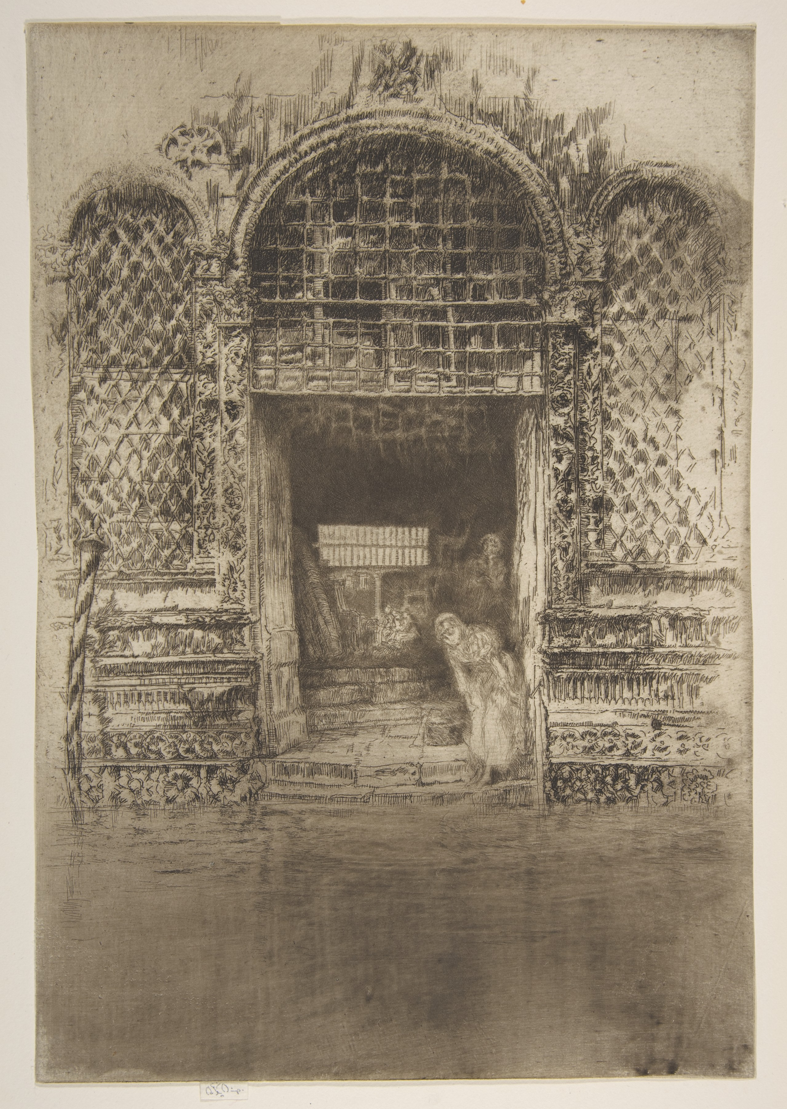 Print; Prints